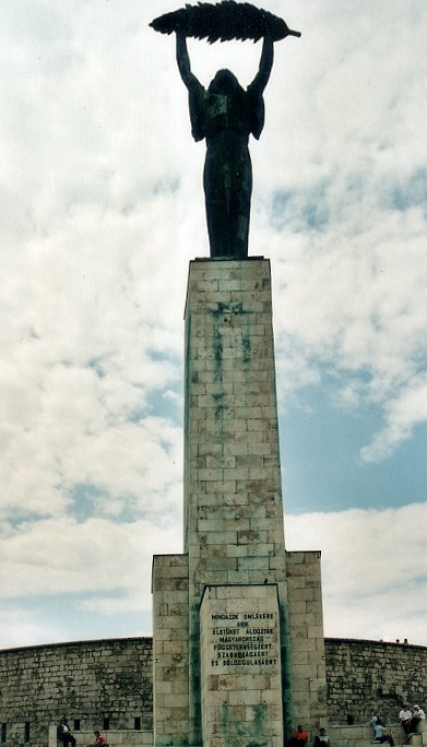 Statue of Liberty, Budapest, Hungary